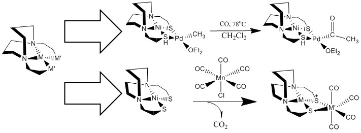 Examples of Nickel and Palladium Dithiolates Ligands